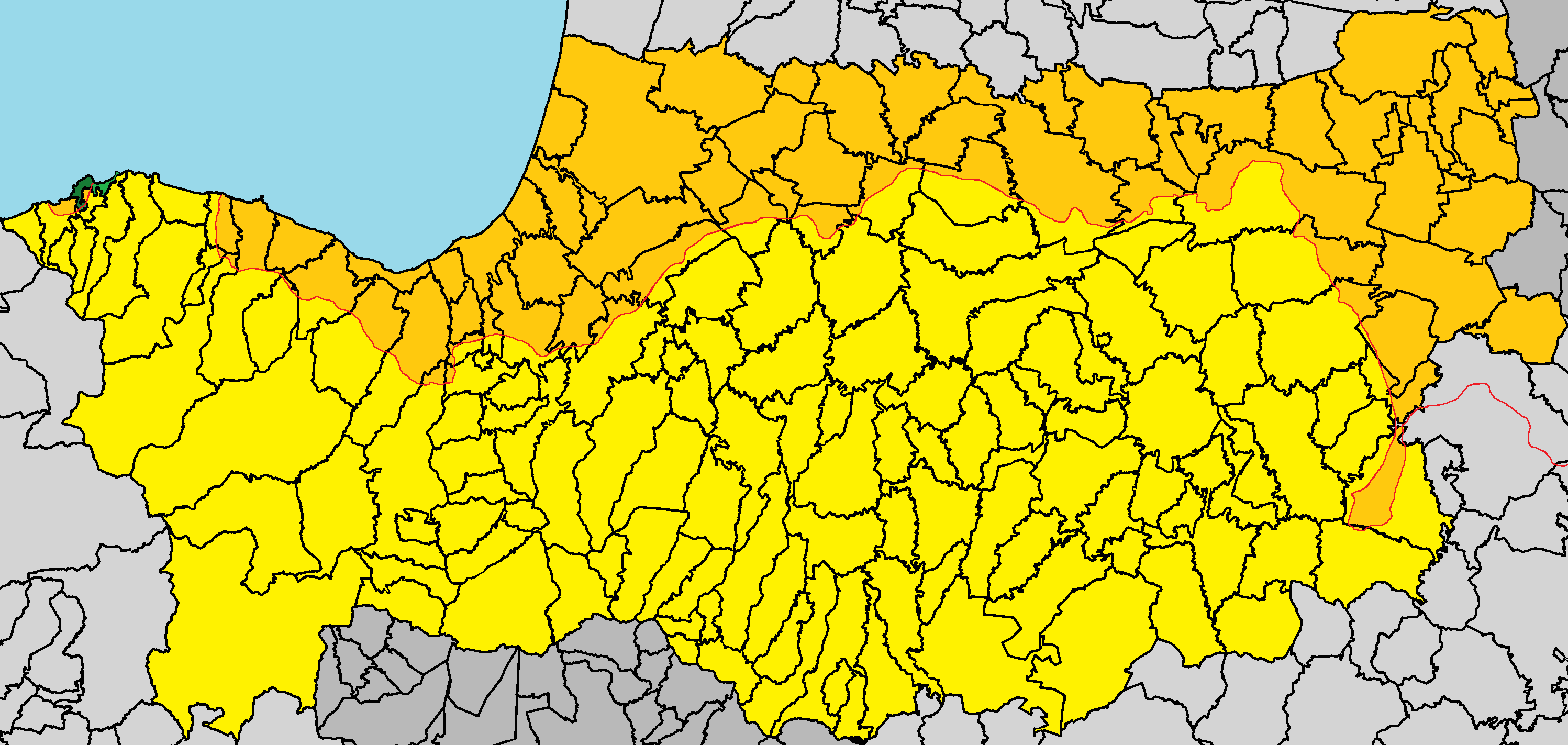 Mansoura in Nicosia District (de jure).